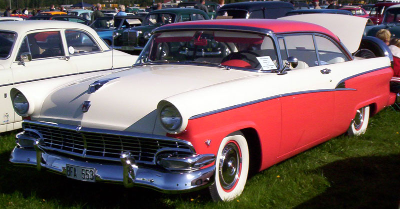 Ford Customline Victoria Hardtop 1956